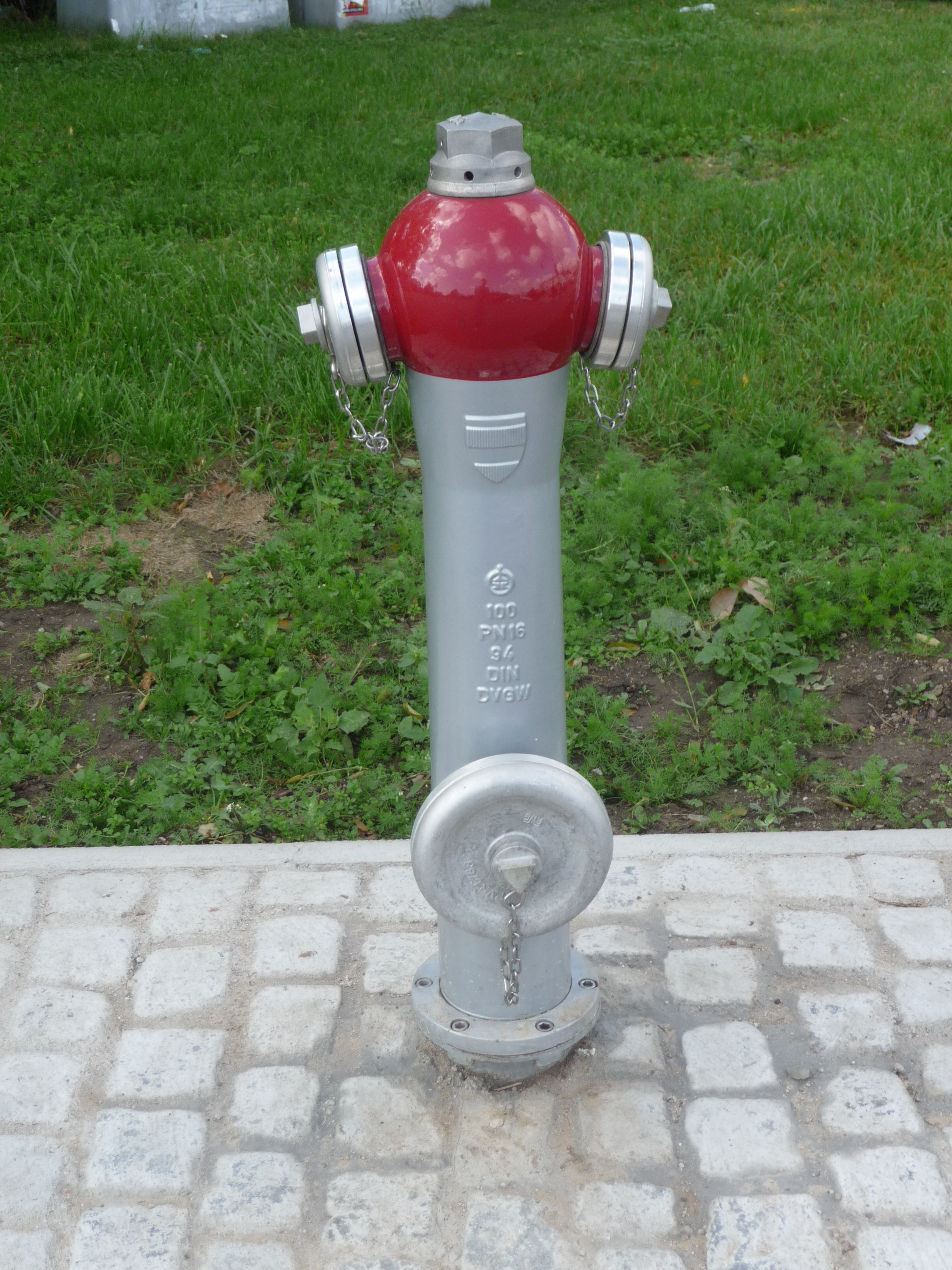 Fire hydrant, Poříčí, Brno